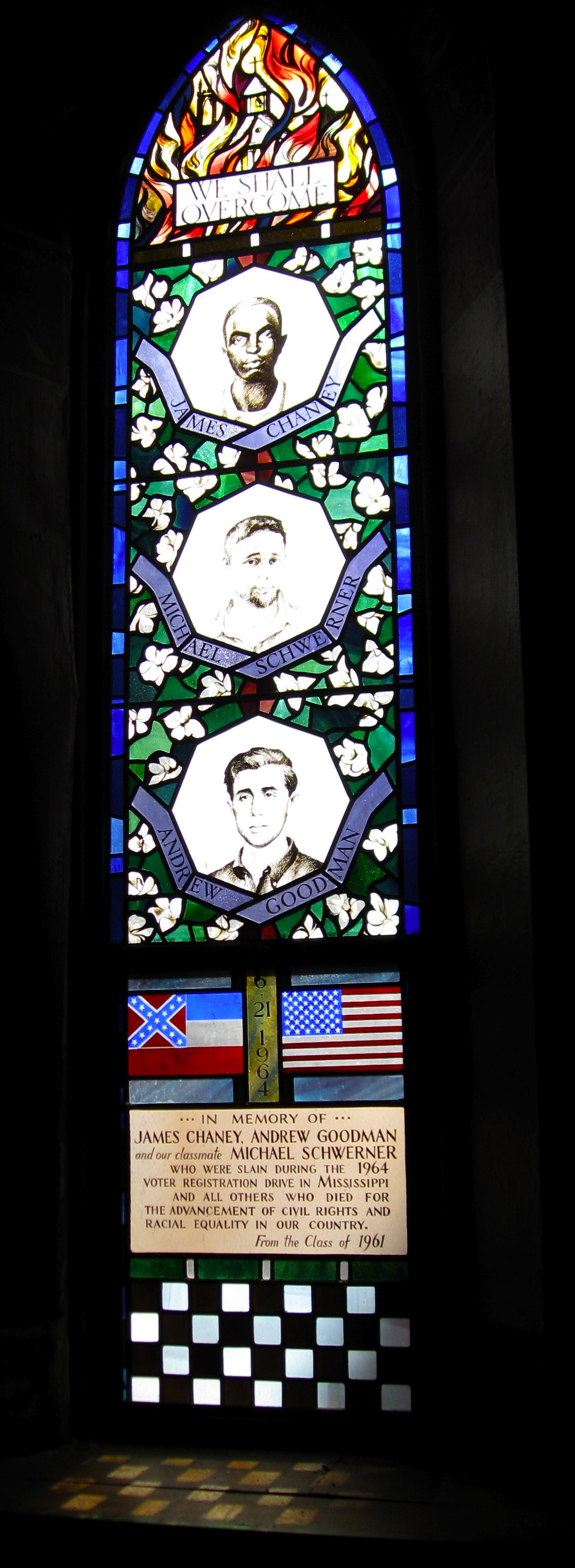 stained glass window honoring Mississippi civil rights workers murders, Sage Chapel, Cornell University